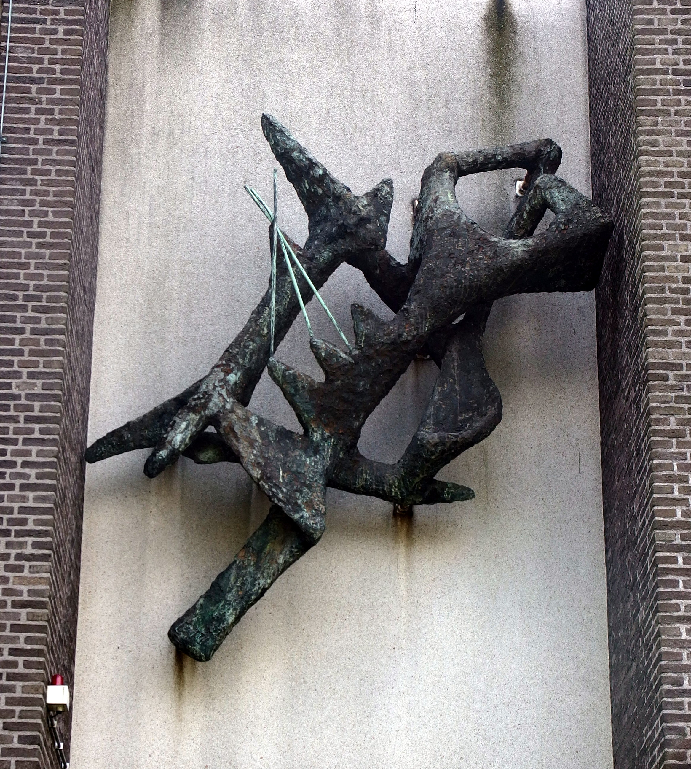 2013-05-12 in Amsterdam Nieuw-West; Slotervaart. Telefooncentrale Amsterdam-Slotervaart.